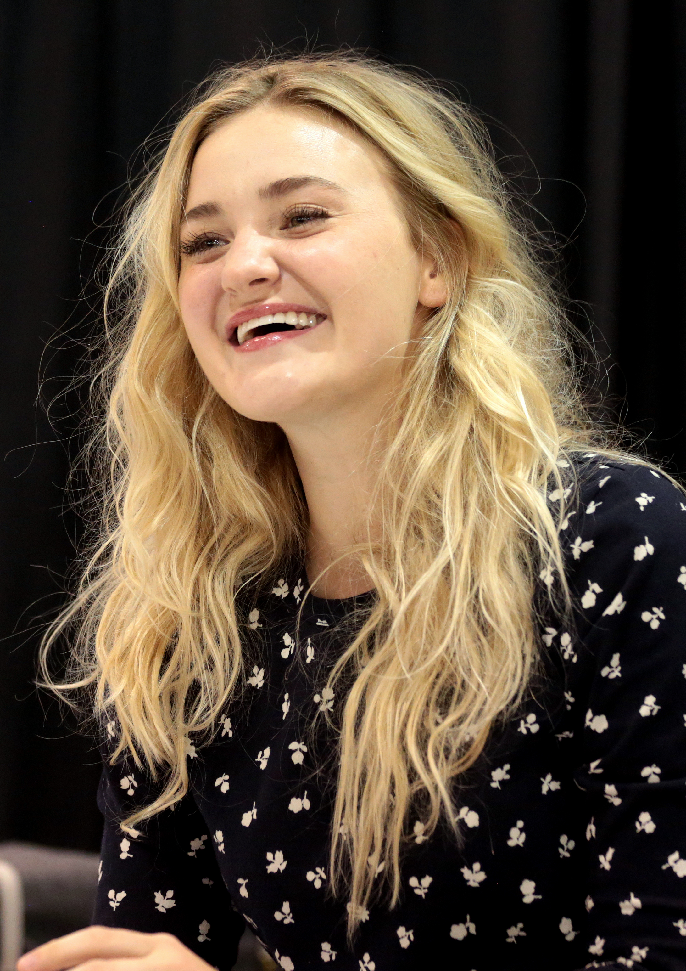 AJ Michalka speaking at an event in Phoenix, Arizona.